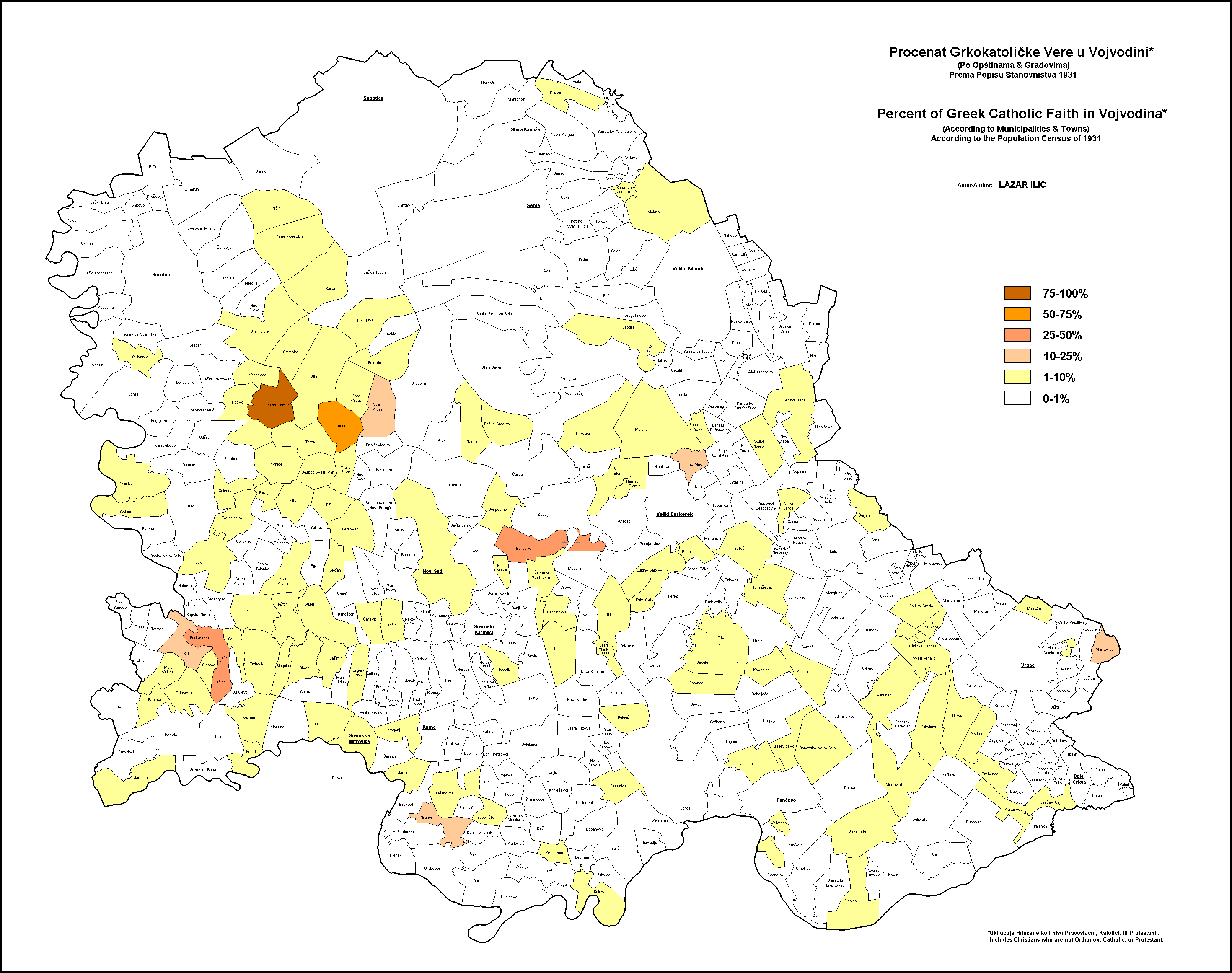 This is a religious map of Vojvodina. It is based on the 1931 population census and shows the percent of Christians who are not Orthodox, Catholic or Protestant. It's unusual classification, but it is what how the census data had it arranged. The overwhelming majority of these people are Greek Catholic.